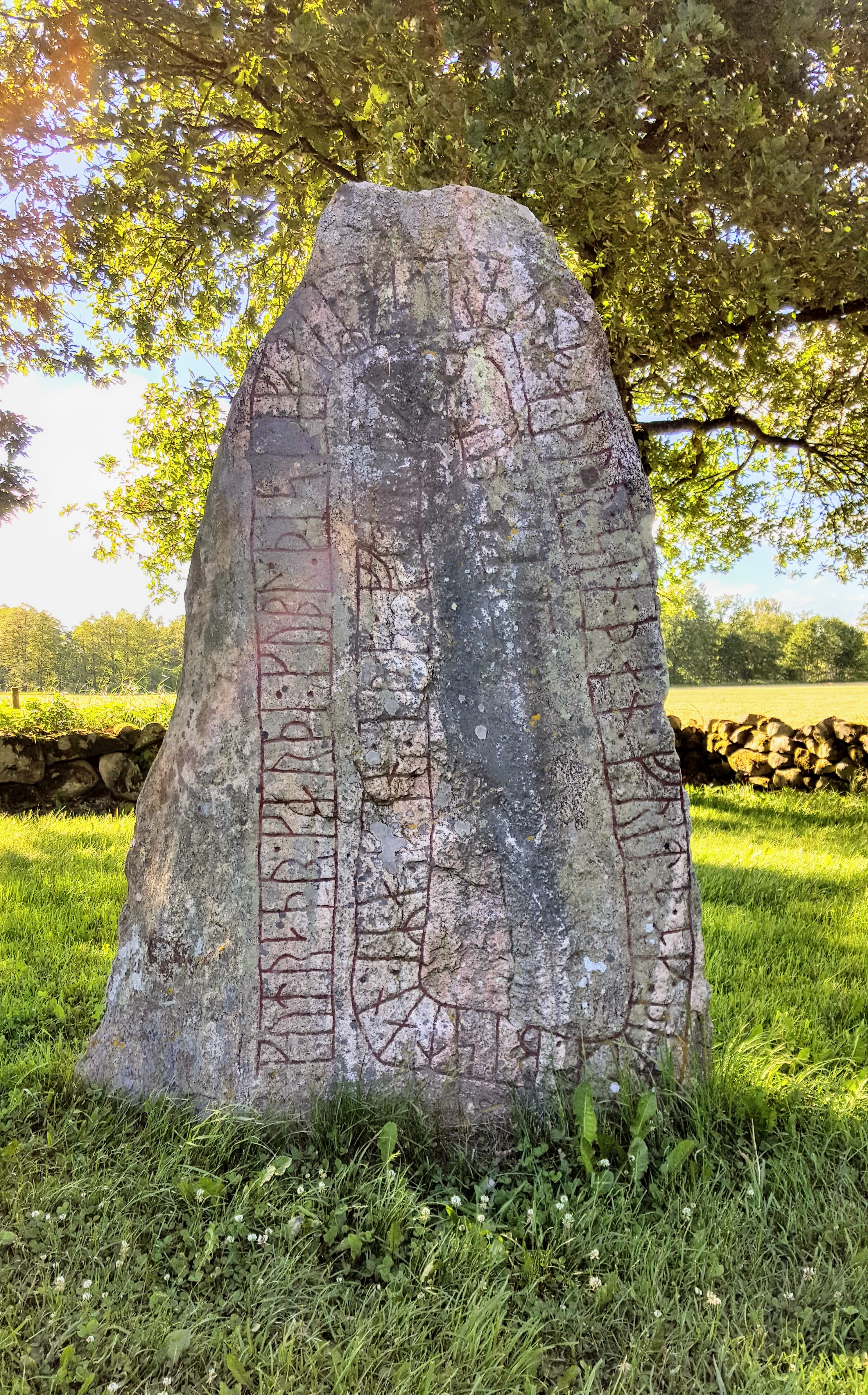 A picture of the Relösa Stone, SM 35, just outside Ljungby, Sweden.